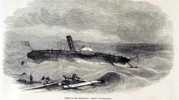 Wreck of HM Steam-Sloop Hecla off Gibraltar, Illustrated London News, 10 February 1855